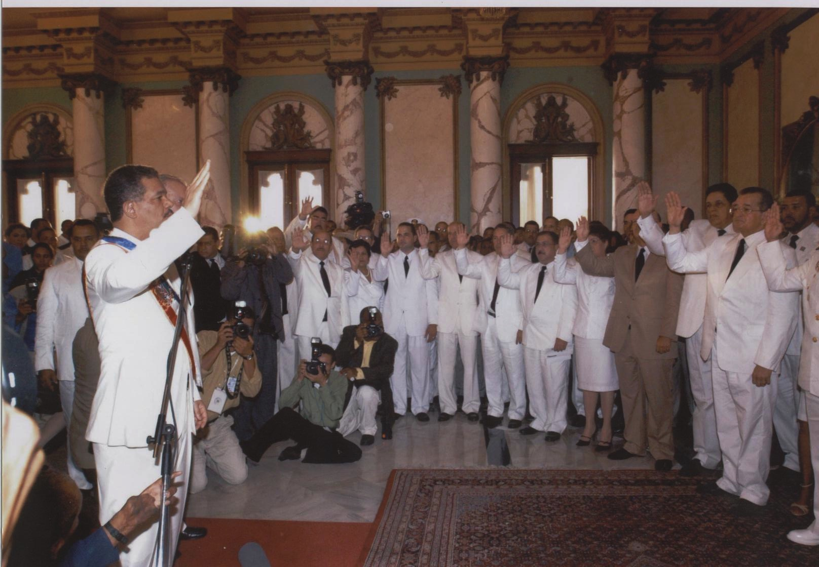 Primer Gabinete de gobierno de Leonel Fernández para el periodo 2004-2008